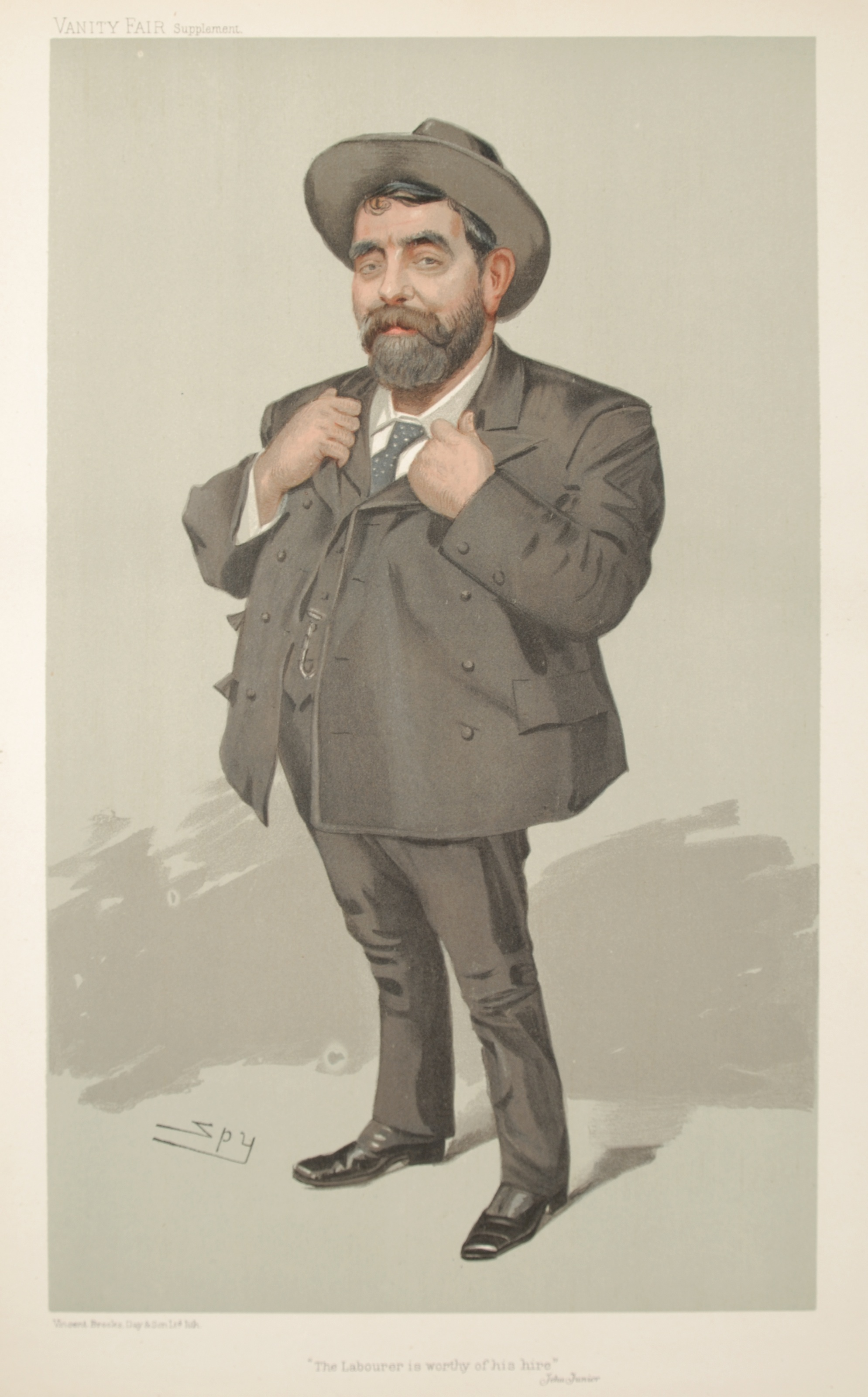 "Men of the Day" No.0958. Caricature of William (Will) Crooks (1852 – 1921). Caption reads: "The Labourer is worthy of his hire".